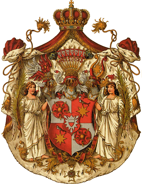 Schaumburg-Lippe Coat of Arms.